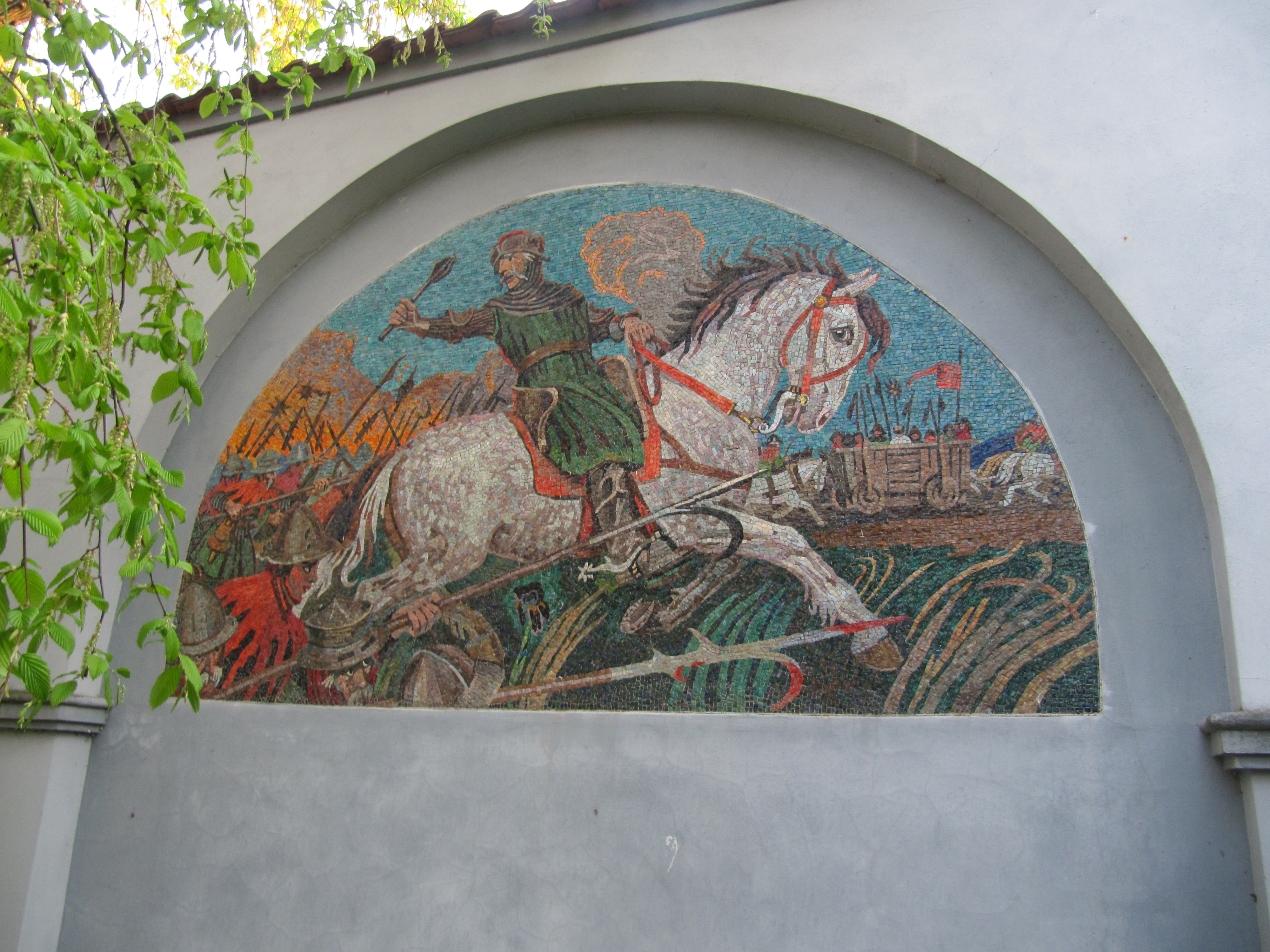 Kroměříž, Czech Republic. Octárna Hotel, area of the former Franciscan monastery. Lunettes from Max Švabinský. Jan Zizka leds Taborites to war.